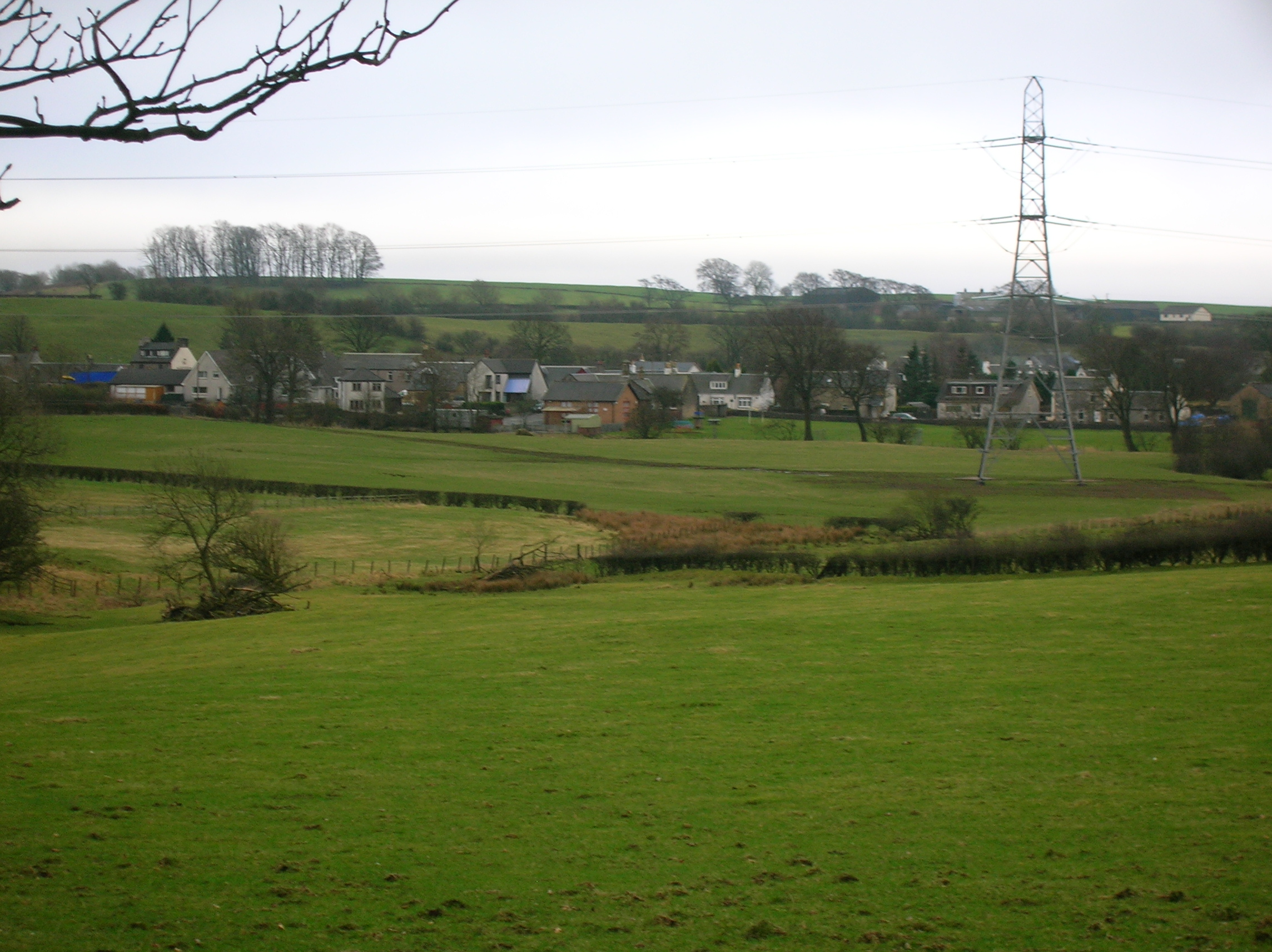 Gateside village near Beith in North Ayrshire, Scotland. View from Beith Hill, site of an old farm.